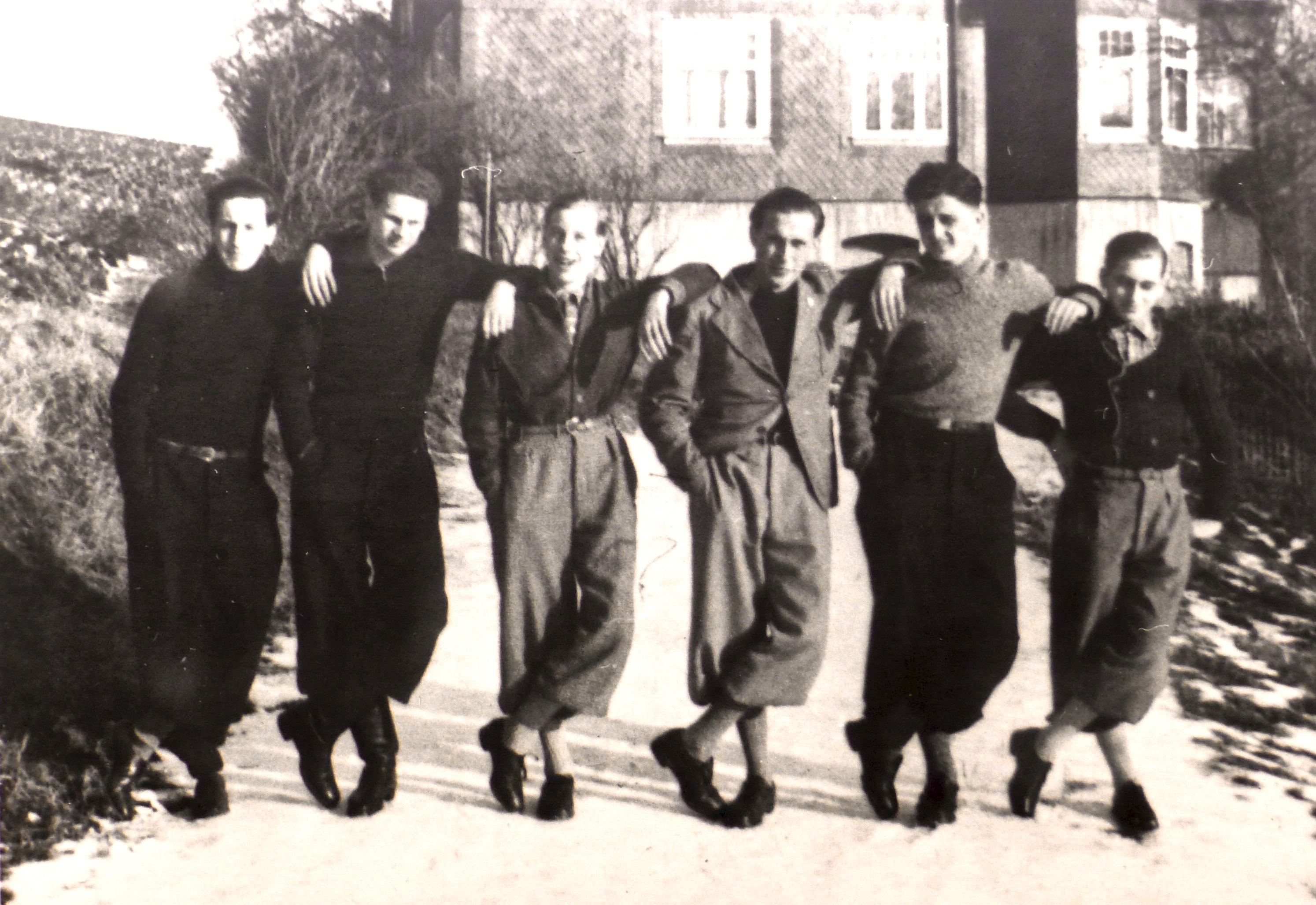 A group of pupils at the compound of Schulgemeinde (= School Community) in Wickersdorf near Saalfeld in the Thuringian Forest. Wearing grey knickerbockers three close friends can be recognized: Arnold Ernst Fanck (3rd from left), Werner Mehr (4th from left) and Max Kahn (6th from left). Max Kahn visited the boarding school from 1930 to 1934, Werner Mehr from 1934 to 1938 and Arnold Fanck junior from 1930 to 1938. The picture could have been made around Easter 1934; there is a thin layer of snow on the ground.